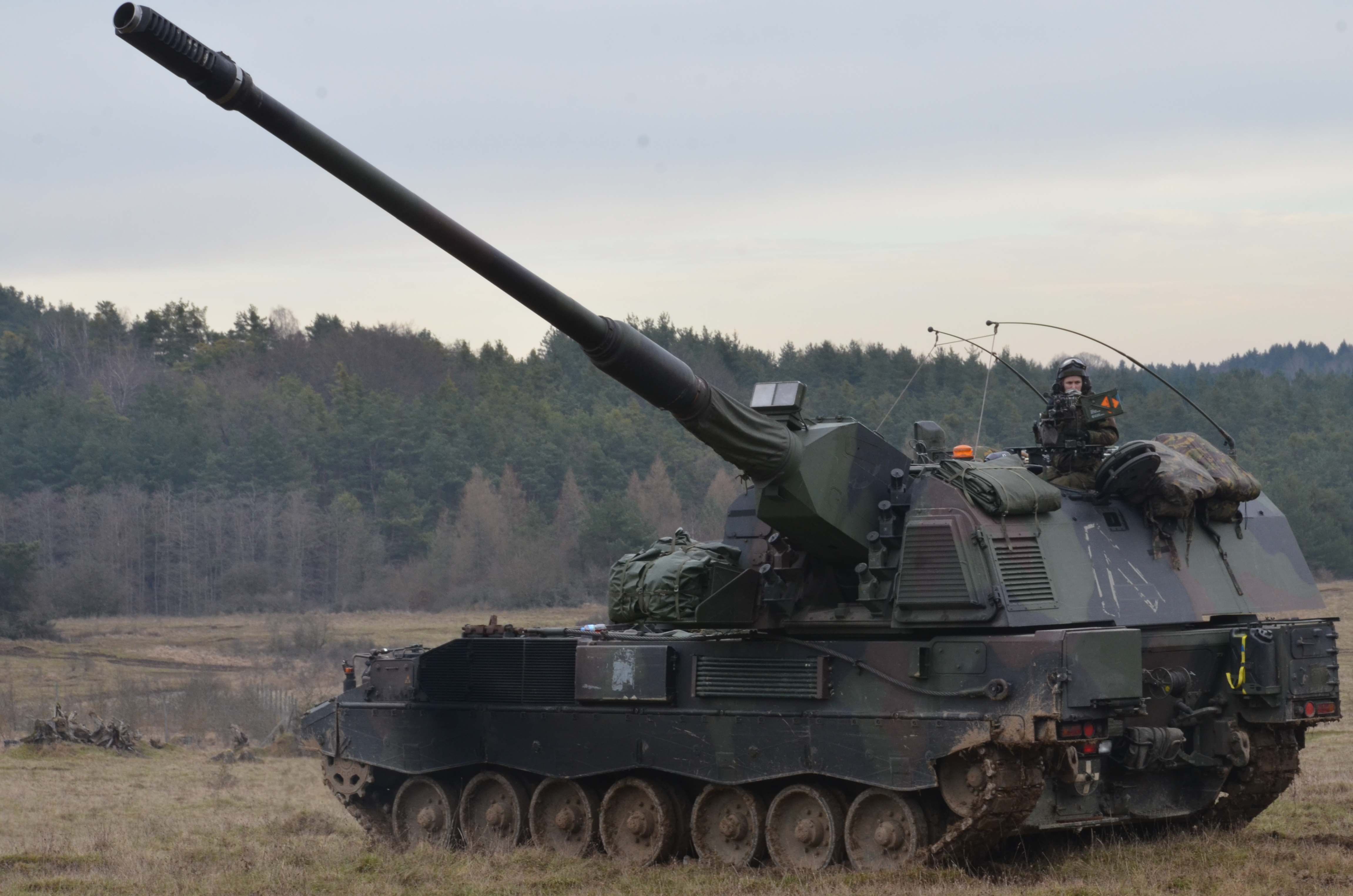 A Dutch soldier of Bravo Battery, Fire Support Battalion operates a Panzerhaubitze 2000 during exercise Allied Spirit at the Joint Multinational Readiness Center in Hohenfels, Germany, Jan. 16, 2015. Exercise Allied Spirit includes more than 1,600 participants from Canada, Hungary, Netherlands, United Kingdom, and the U.S. Allied Spirit is exercising tactical interoperability and testing secure communications within alliance members. (U.S. Army photo by Pfc. Shardesia Washington/Released)